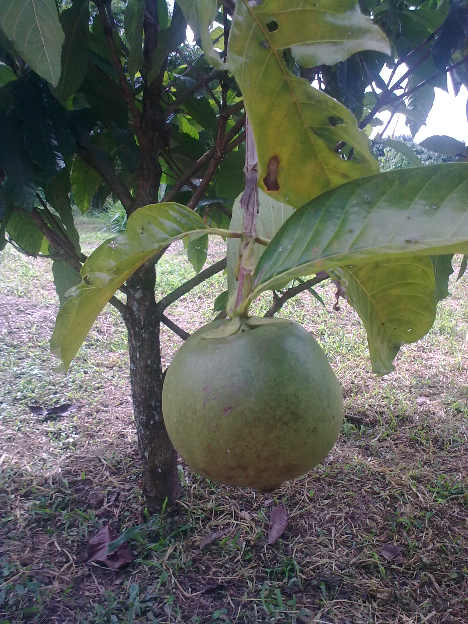 Fruto aún no maduro. Cuando lo está, toma una coloración negra y cae al suelo. Si se cosecha sin haber tomado en su totalidad dicha coloración, el fruto no servirá, nunca madurará.